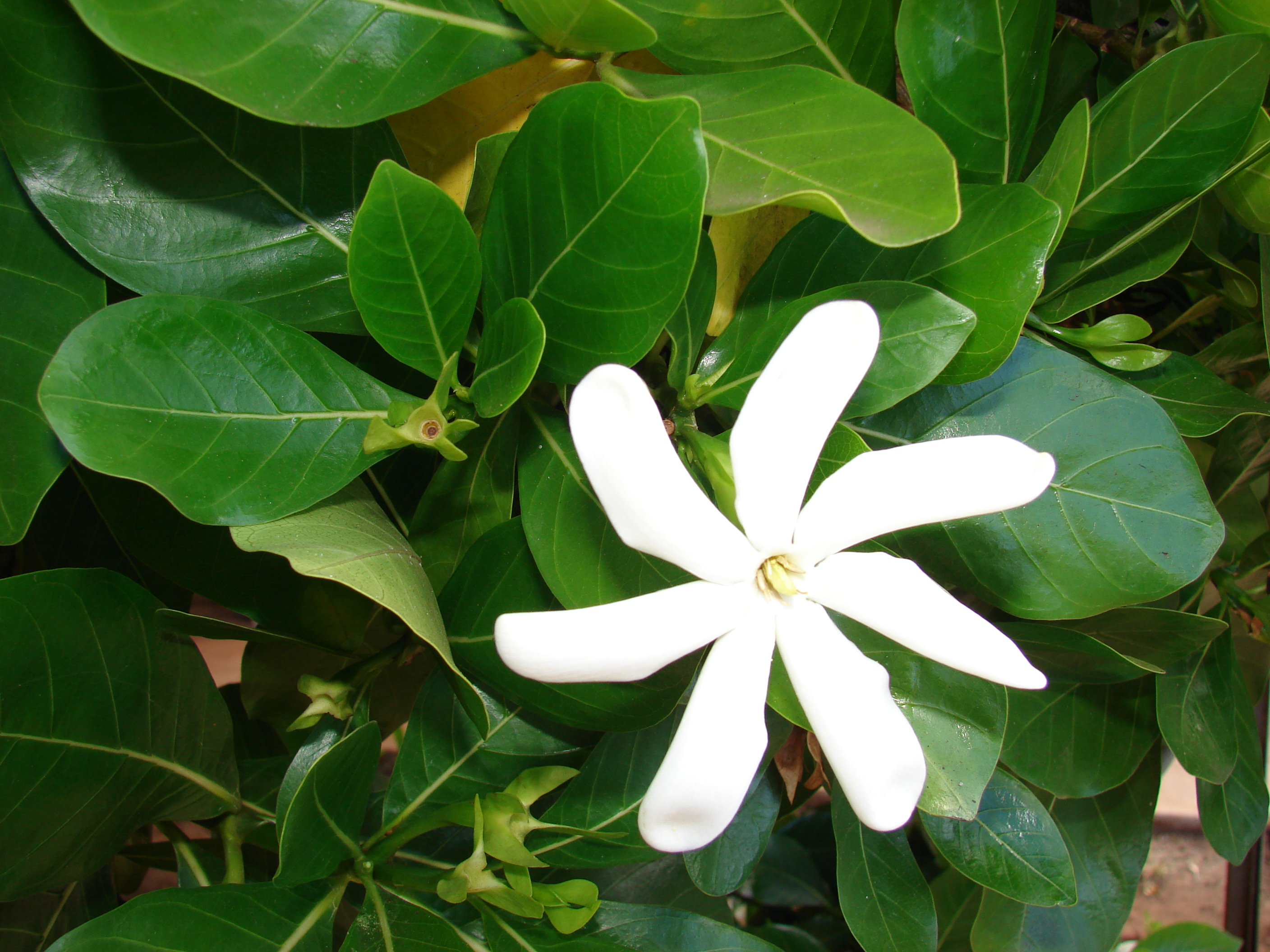 Gardenia taitensis (flower and leaves). Location: Maui, Lahaina Aquatic Center